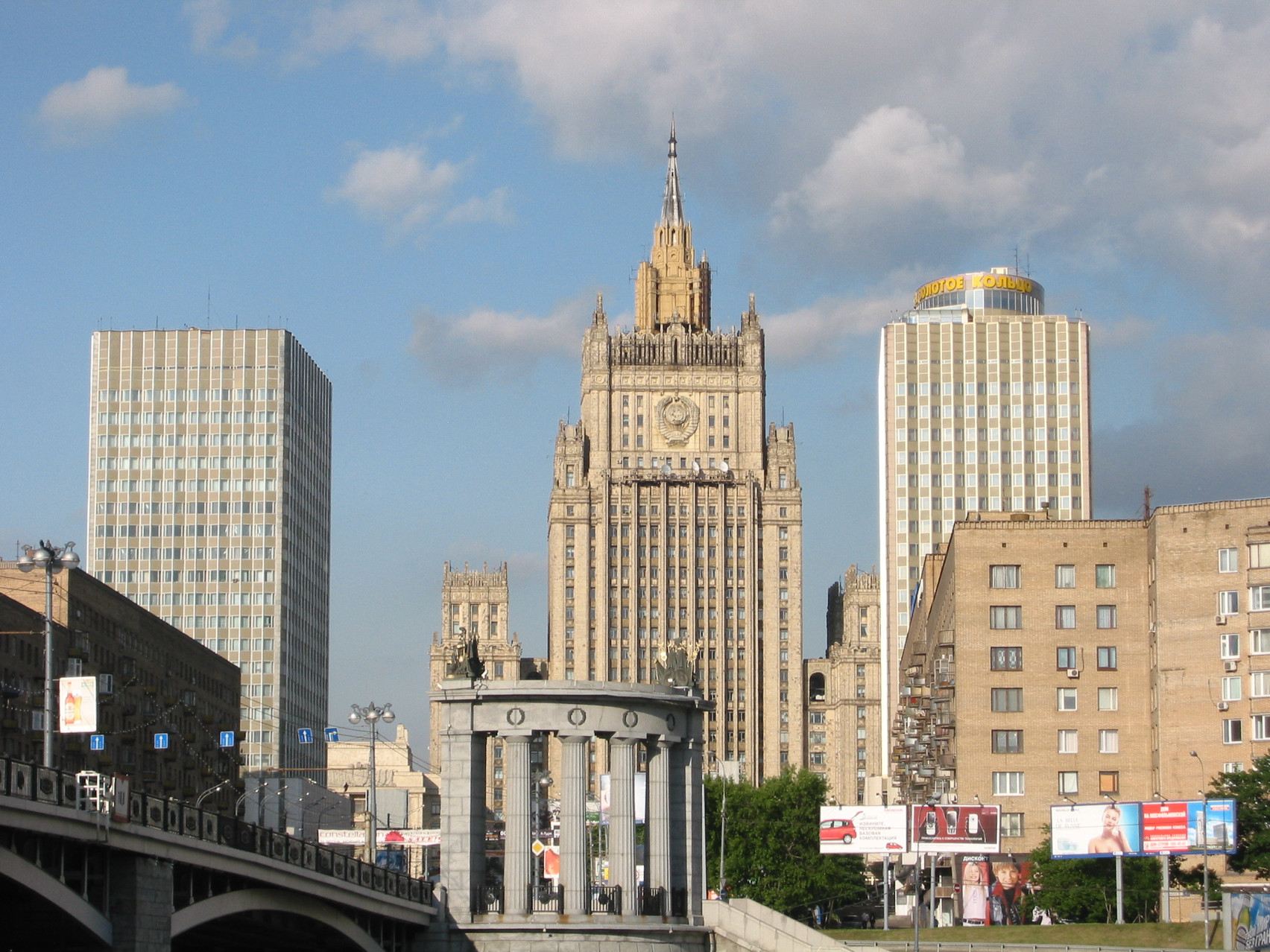 Moscow, Russia. View east into Smolenskaya Street and Smolenskaya Square from across Moskva River.